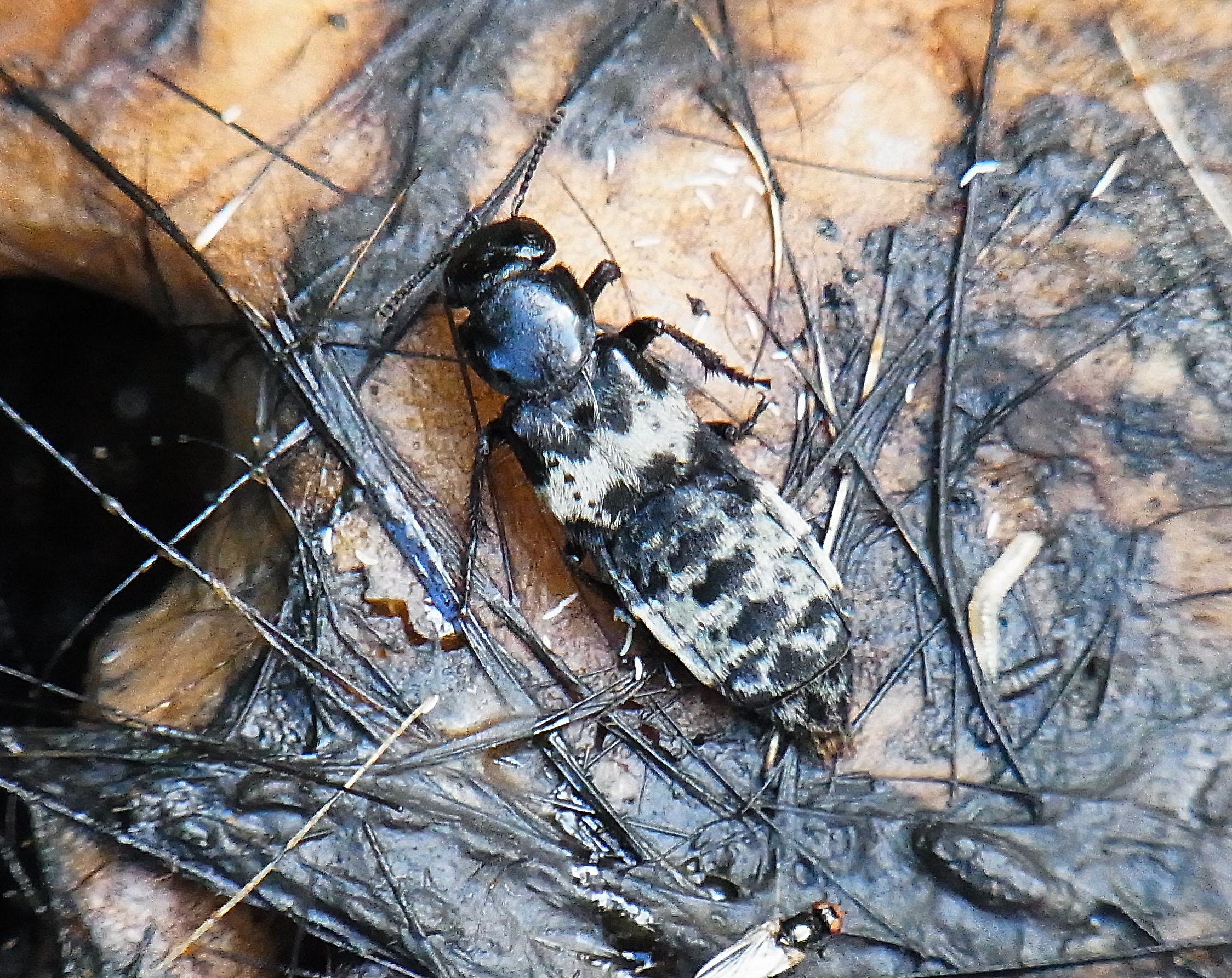 Creophilus maxillosus from Northern Spain near Oviedo on dead wild boar at 2013-08-08